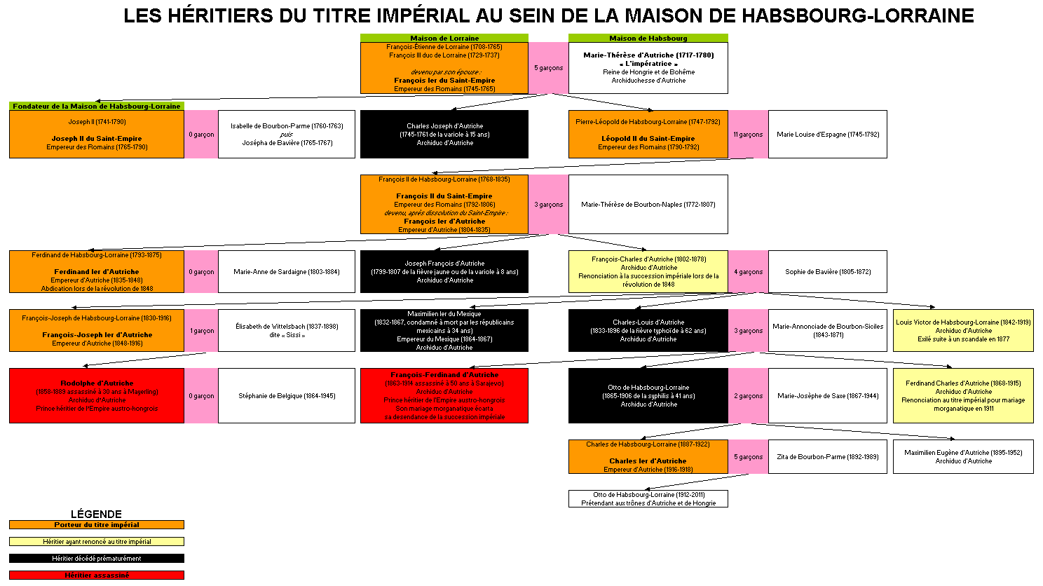 Heirs of the imperial title in the House of Habsburg-Lorraine